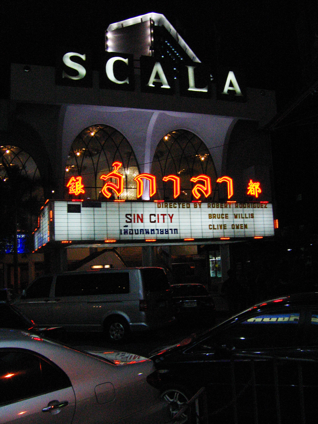 The Scala theater in Siam Square, Bangkok, by night.